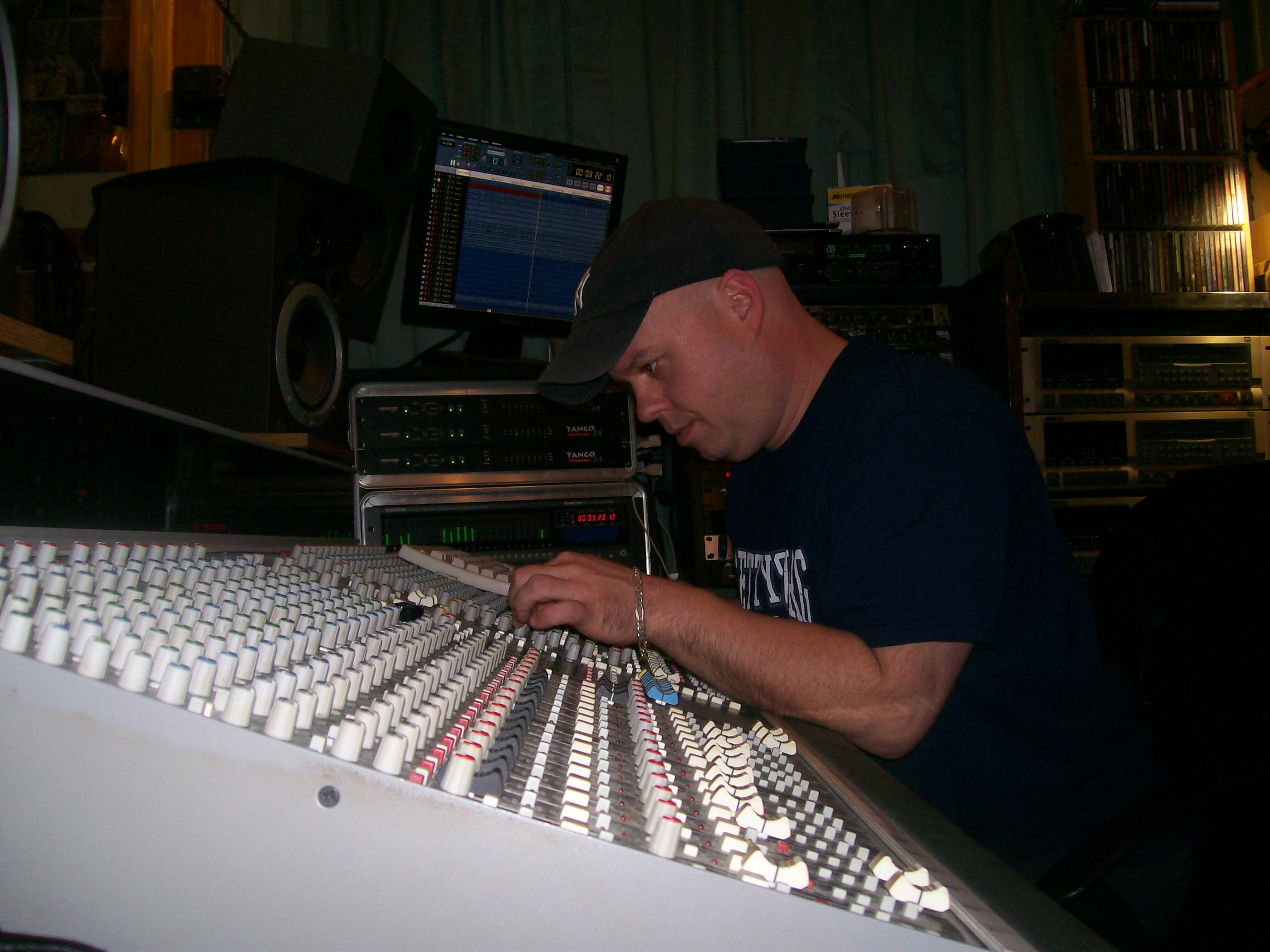 Doug Using His mixing board at Watchmen Recording Studios.